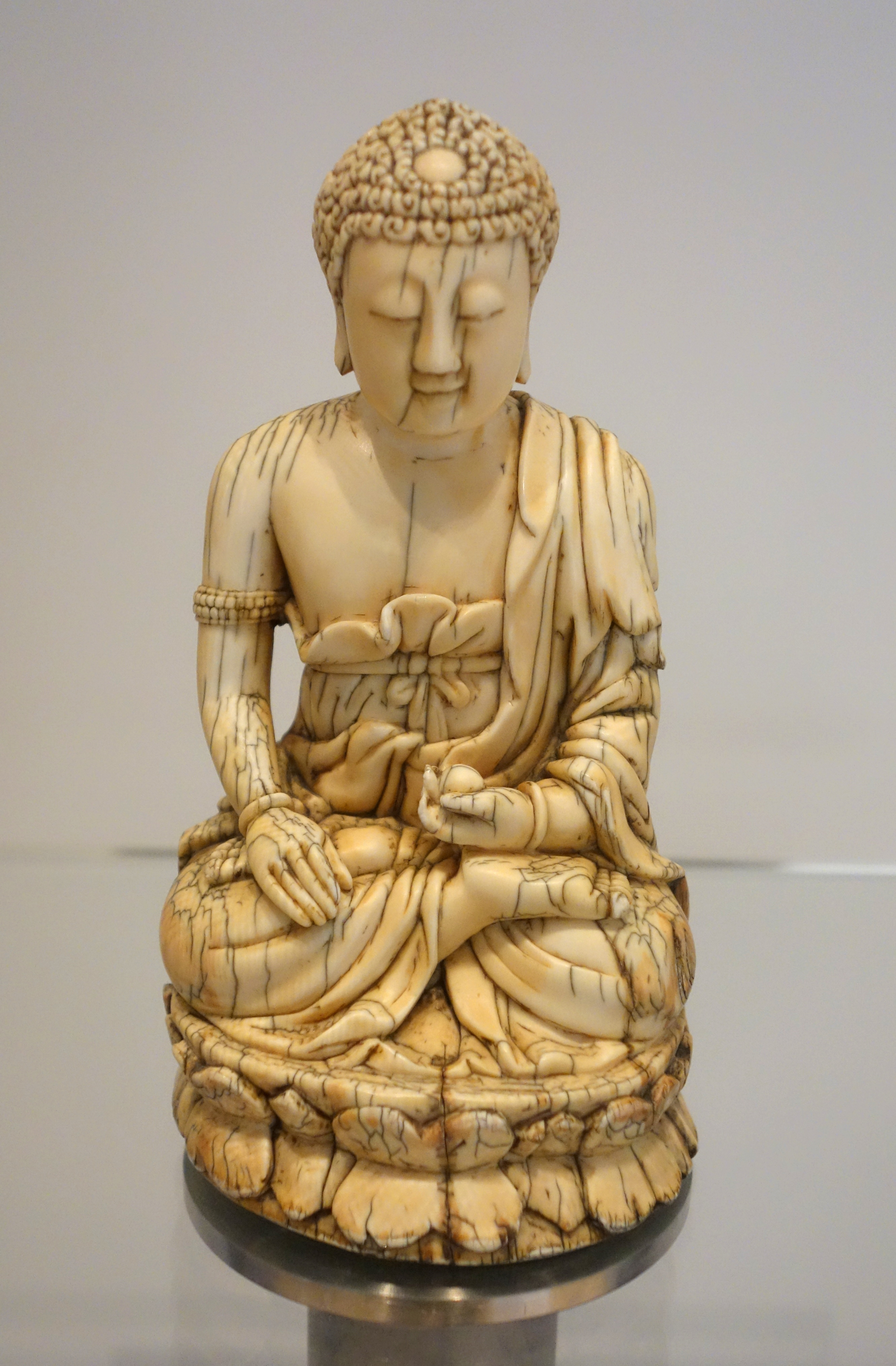 Exhibit in the Royal Ontario Museum, Toronto, Ontario, Canada. This work is old enough so that it is in the public domain.